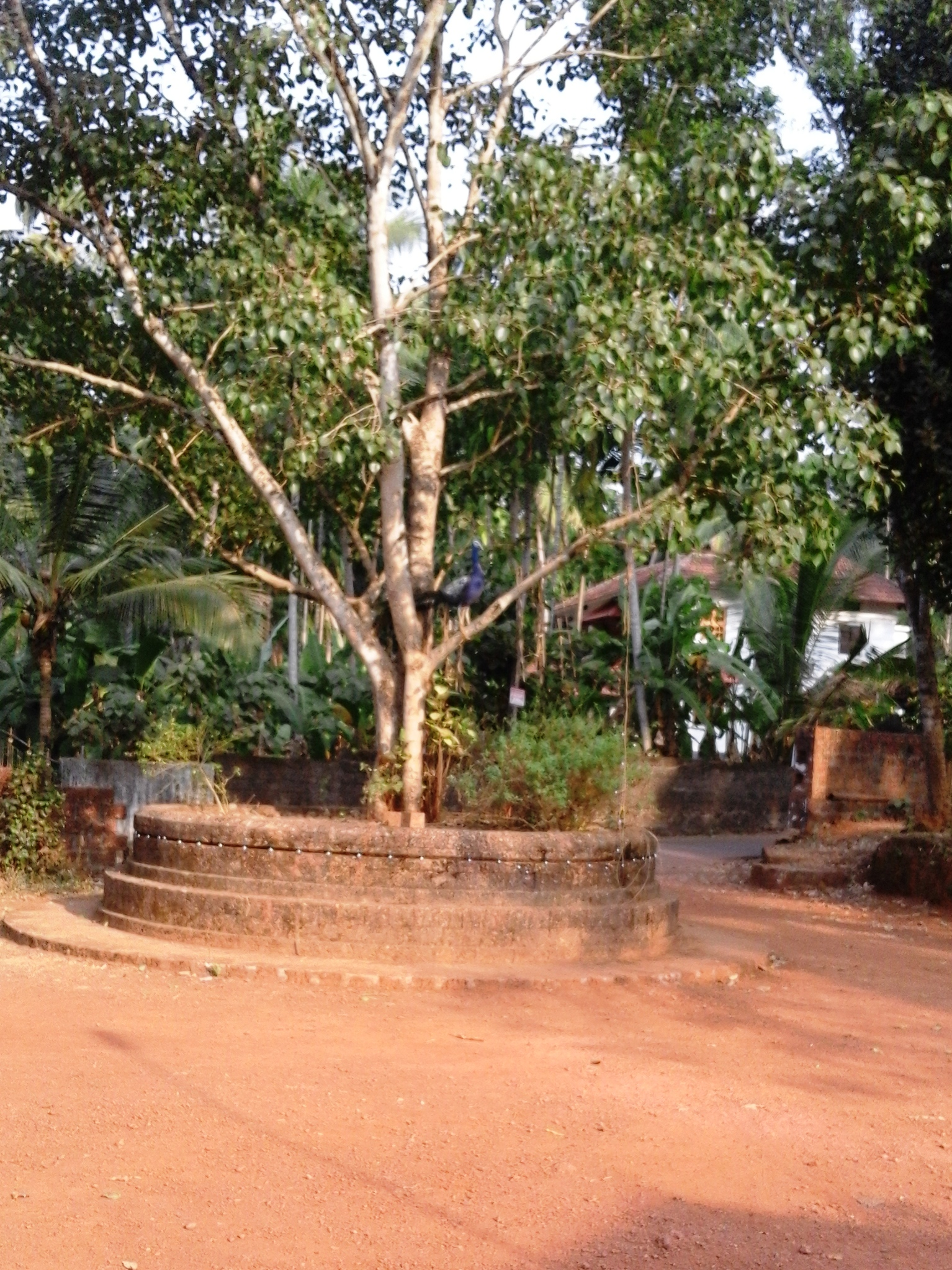 Kolappuram, Tirurangadi, Malappuram District, Kerala province, India.